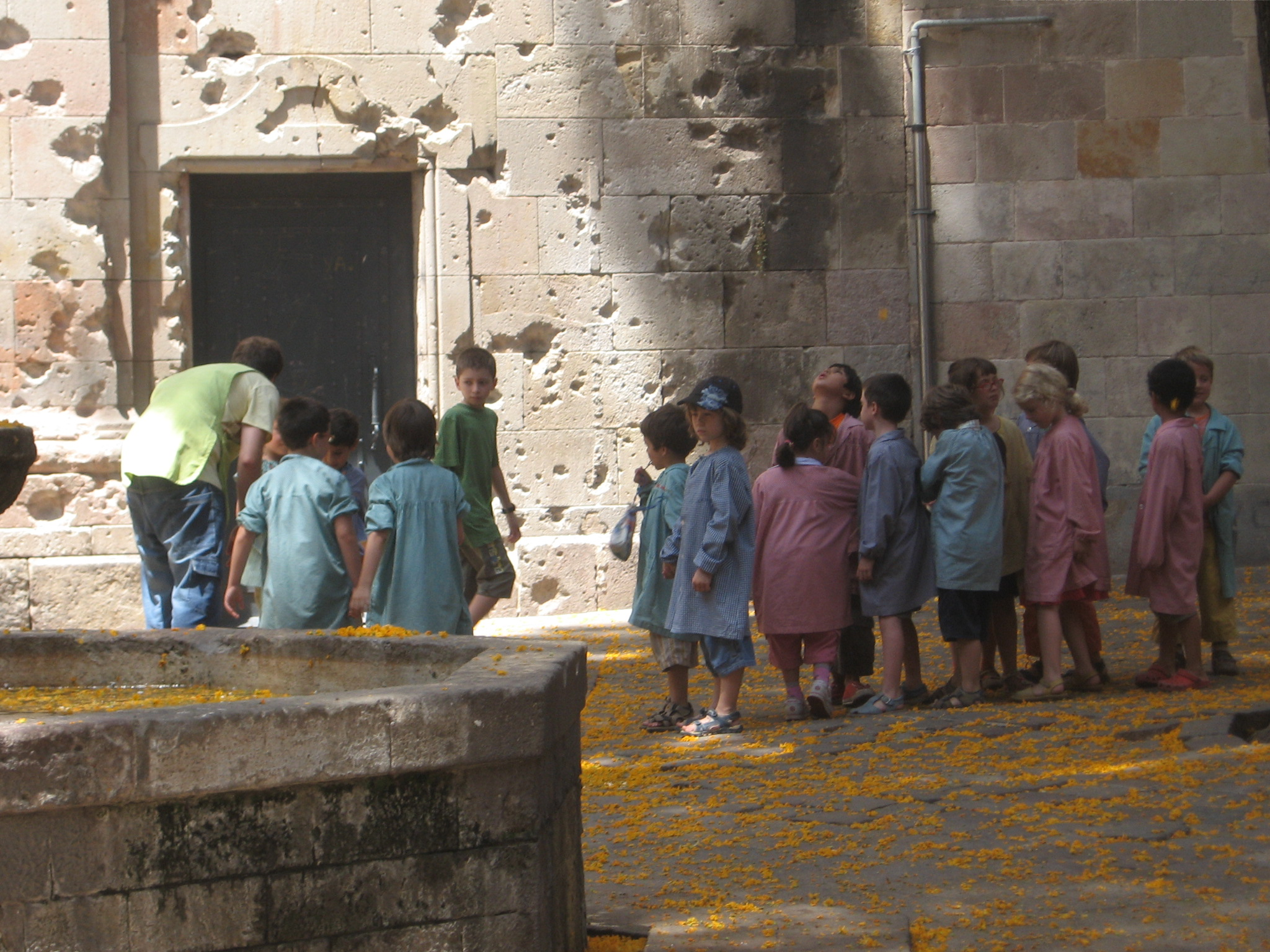 Barcelona - school children with school uniforms